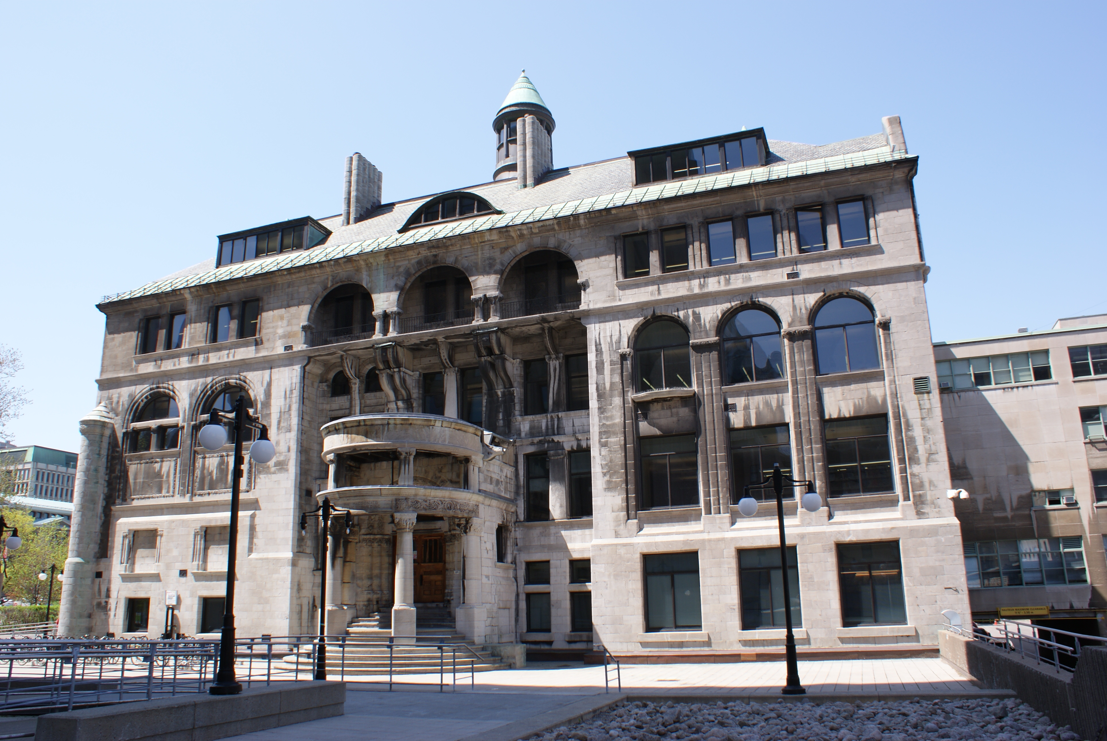 Macdonald-Stewart Library Building, McGill University